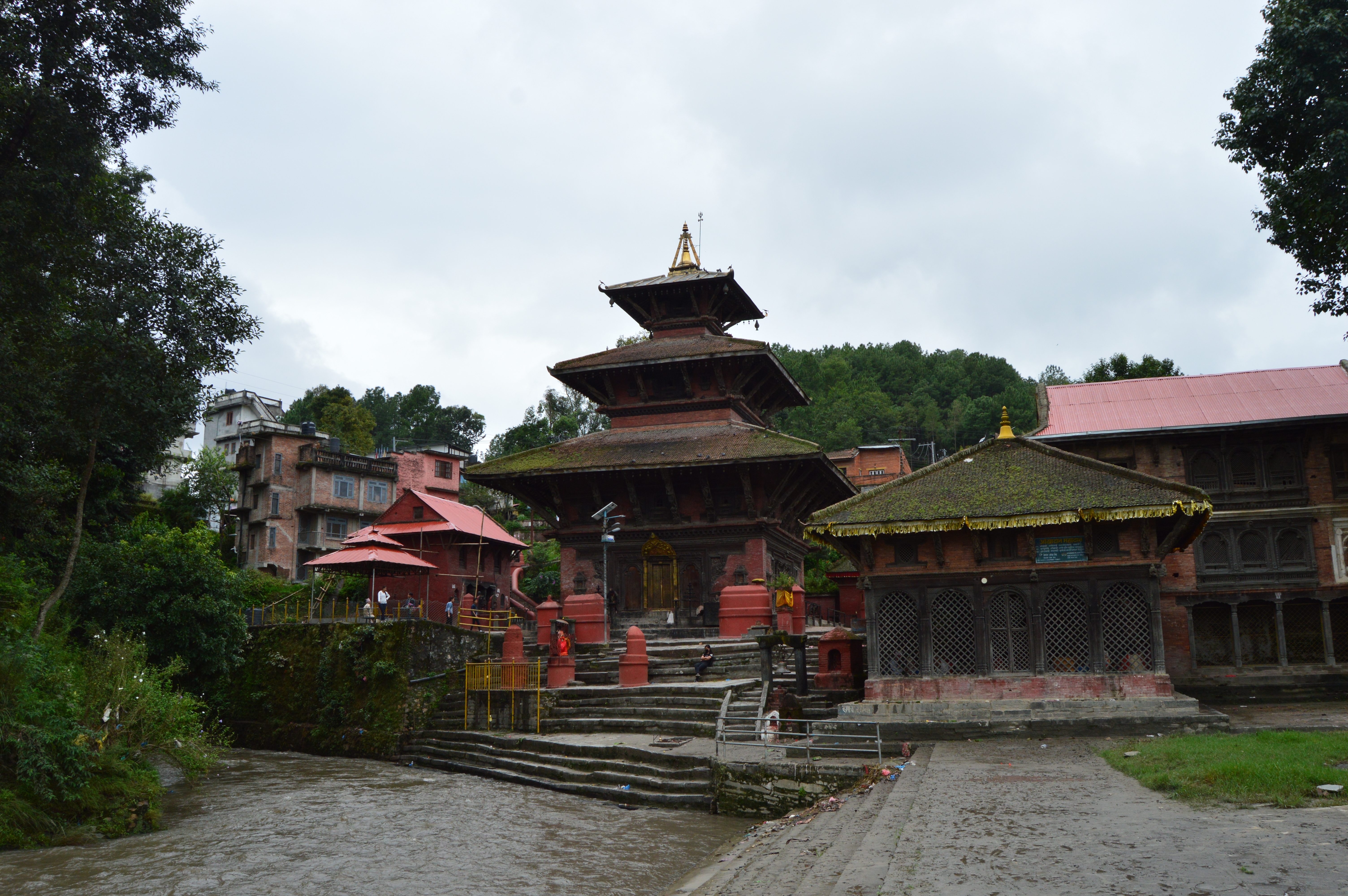 Eastern side of the Gokarna Mahadev Temple (Gokarneshwar; Lord of Gokarna), in Gokarna, Nepal.